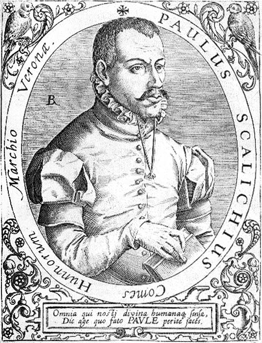 for the moment, NO precise description is adequate.